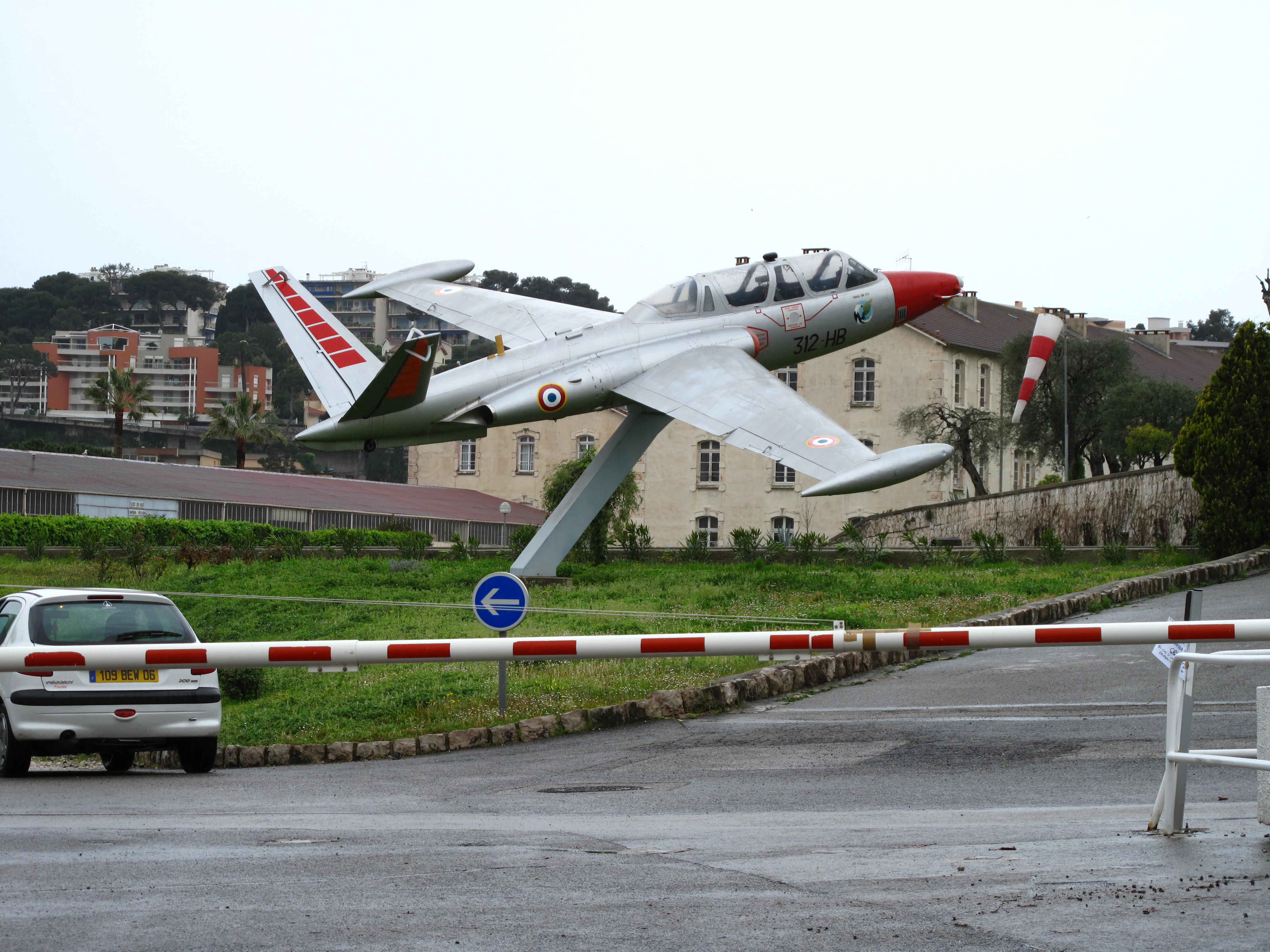 Fouga Magister at the entrance of the french air force base #943